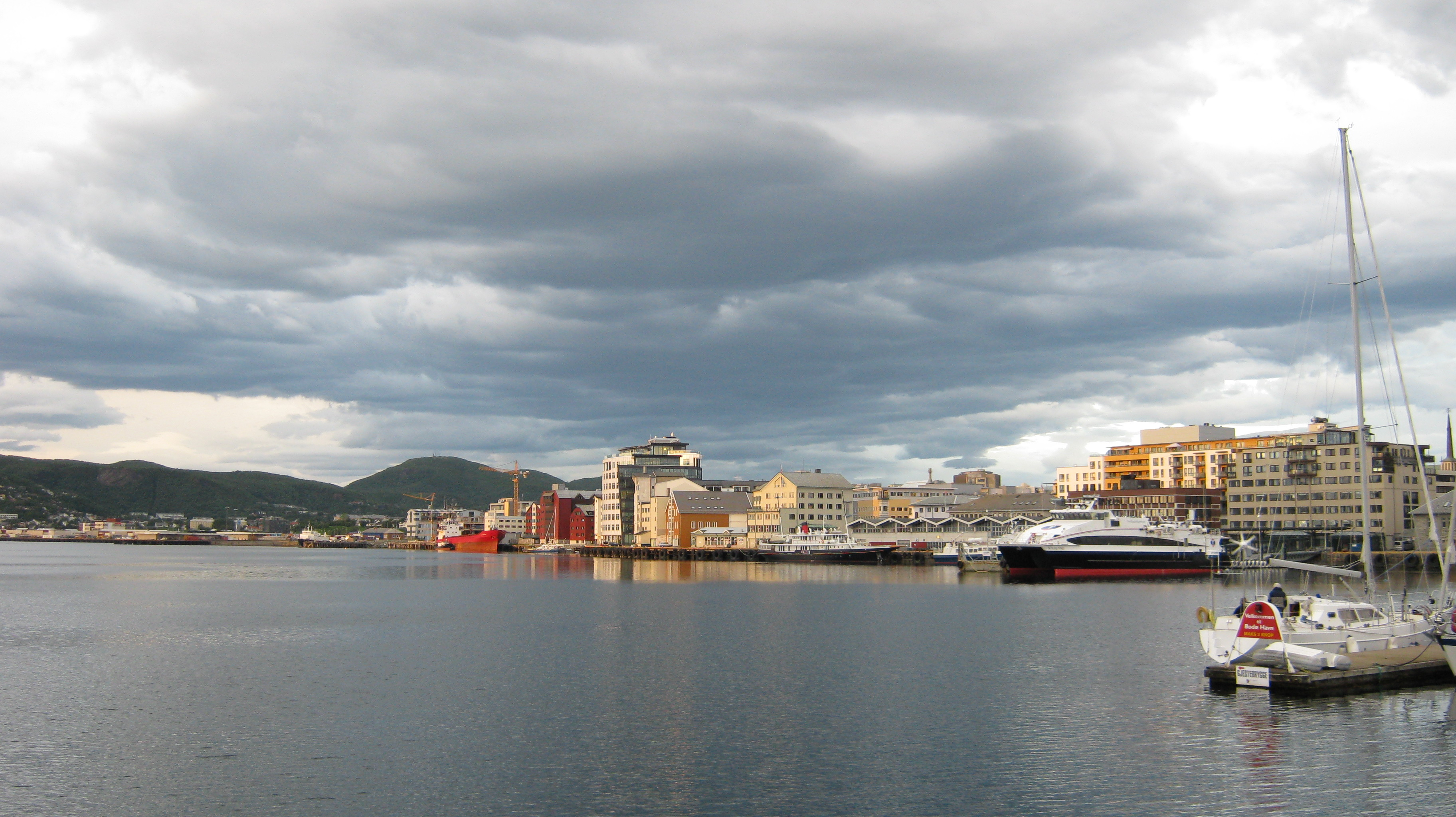 The harbour of Bodø, Nordland county, Norway